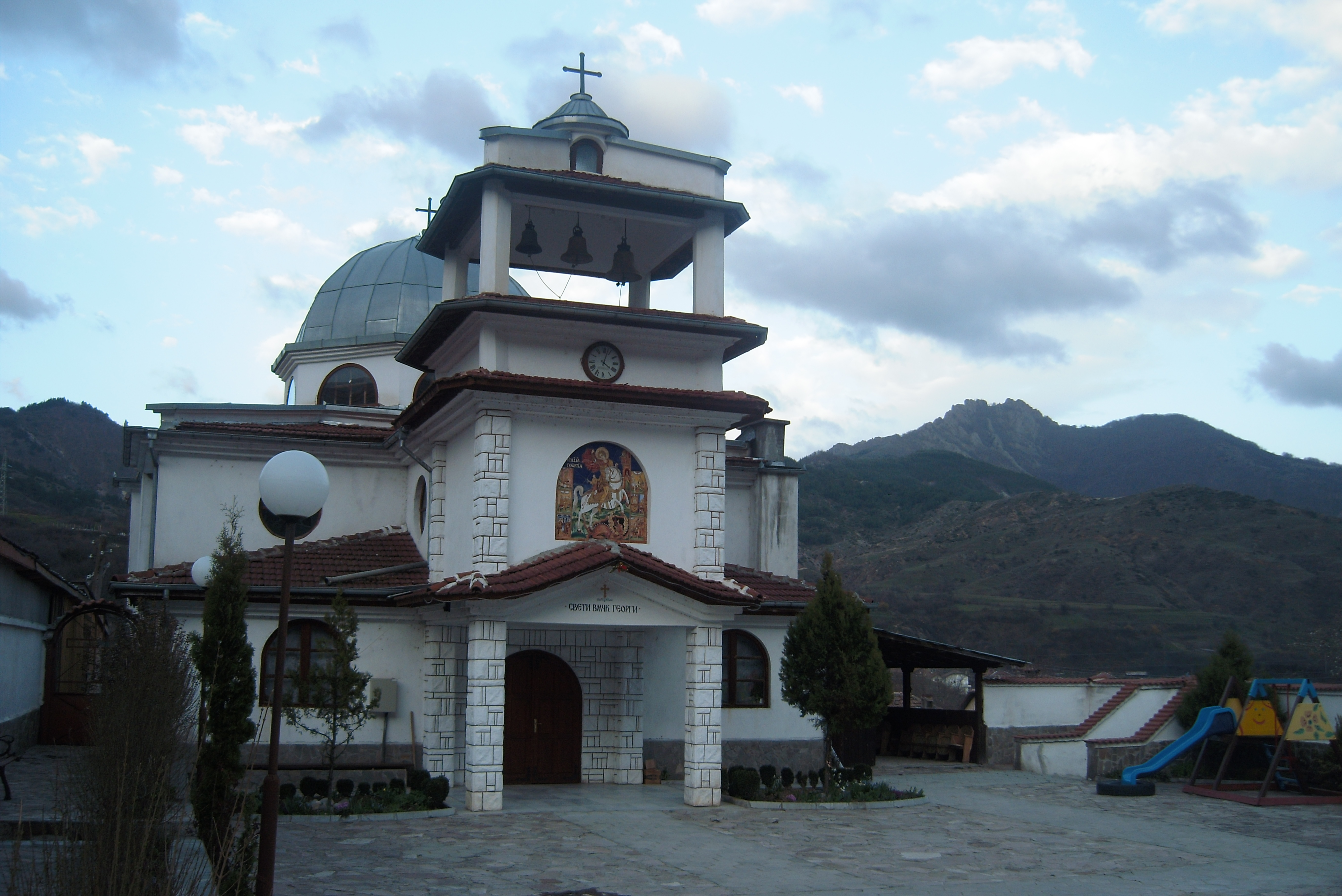 Saint George Church in Mesta